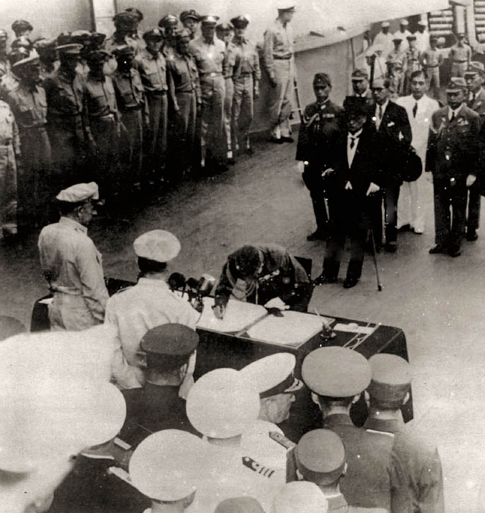 A different perspective of Japanese Gen. Umezu signing the instrument of Japanese surrender. Taken by my grandfather, Sept 2, 1945